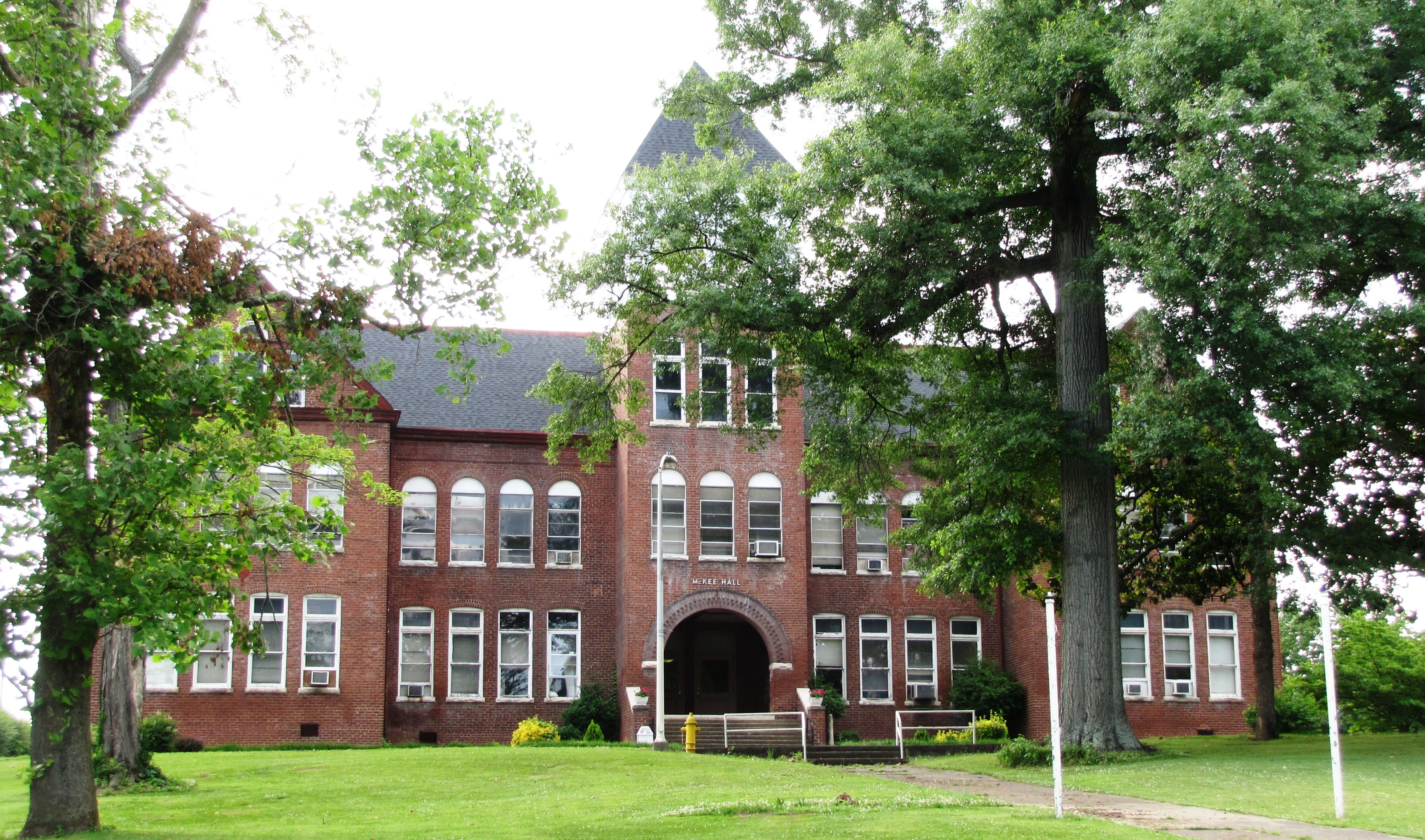 McKee Hall, the administration building of Knoxville College in Knoxville, Tennessee, USA. This building is a contributing property in the NRHP-listed Knoxville College Historic District.